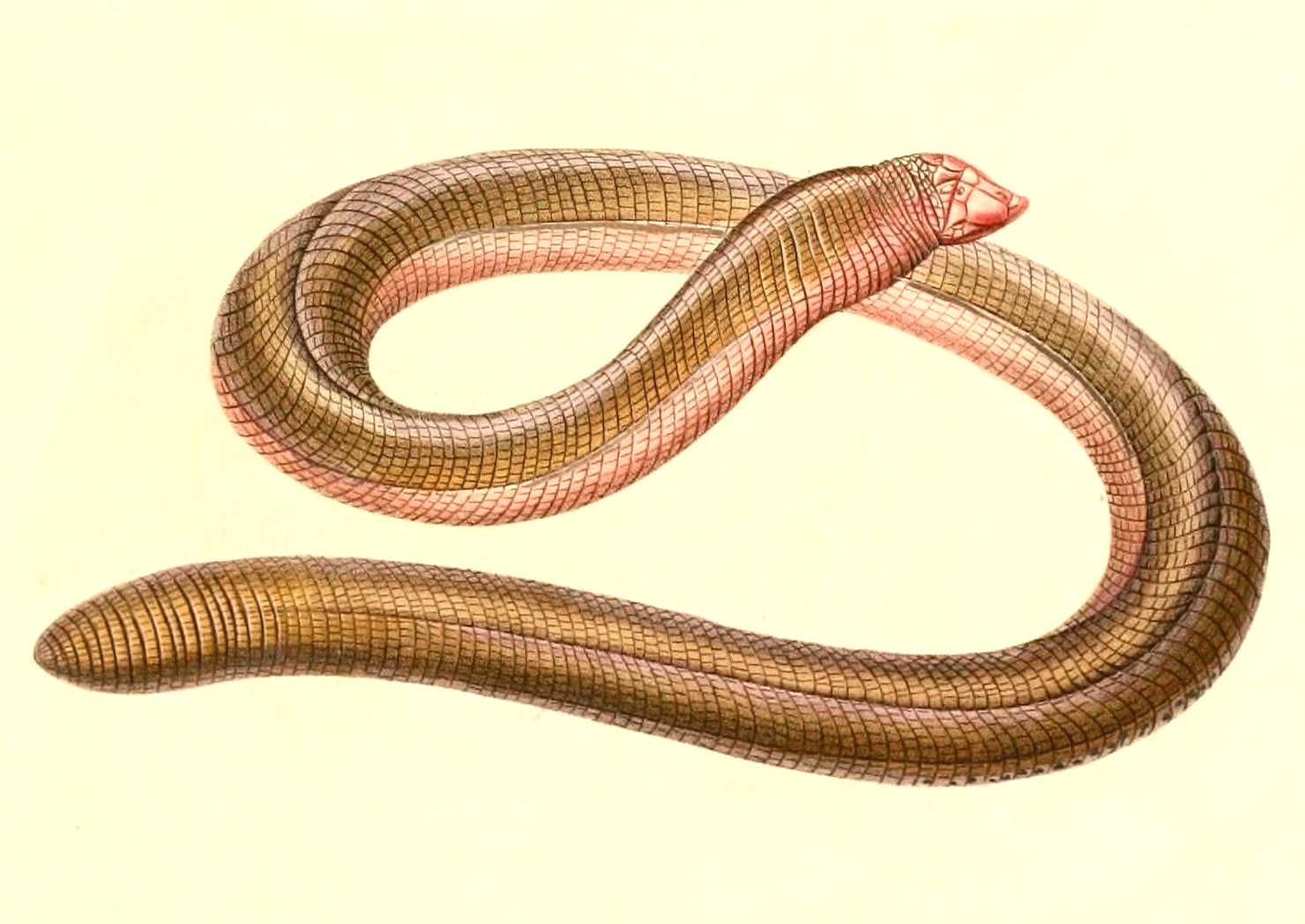 « Lepidosternon phocaena » = Amphisbaena microcephalum (Smallhead Worm Lizard)